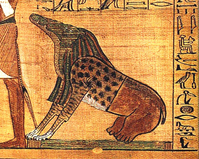 The Weighing of the Heart from the Book of the Dead of Ani. At left, Ani and his wife Tutu enter the assemblage of gods. At center, Anubis weighs Ani's heart against the feather of Maat, observed by the goddesses Renenutet and Meshkenet, the god Shay, and Ani's own ba. At right, the monster Ammut, who will devour Ani's soul if he is unworthy, awaits the verdict, while the god Thoth prepares to record it. At top are gods acting as judges: Hu and Sia, Hathor, Horus, Isis and Nephthys, Nut, Geb, Tefnut, Shu, Atum, and Ra-Horakhty.